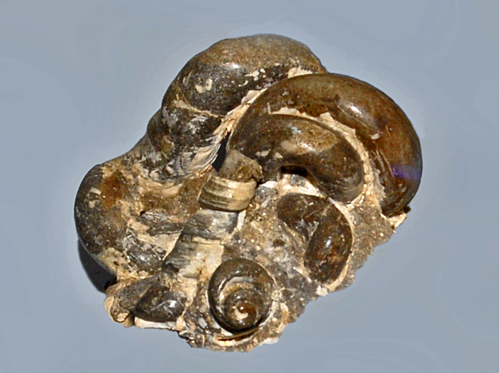 Fossil of Vermetus triquetrus from Pliocene of Italy, on display at the Museo Paleontologico Giulio Maini, Ovada